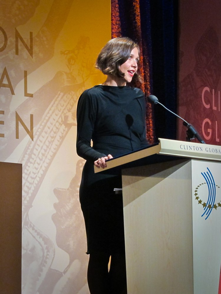 Maggie Gyllenhaal onstage at Clinton Global Citizen in 2010.